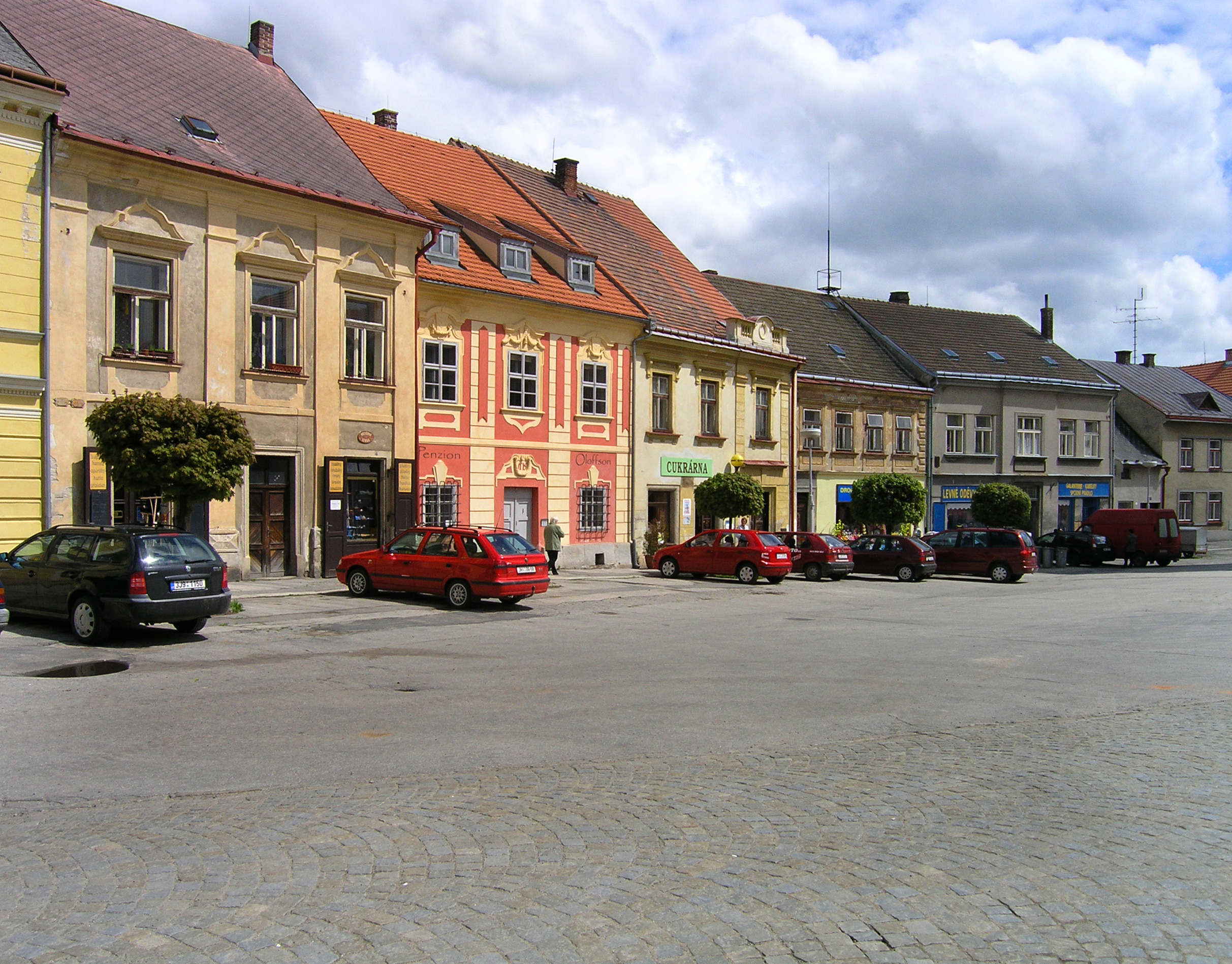 Palackého square in Počátky, Czech Republic